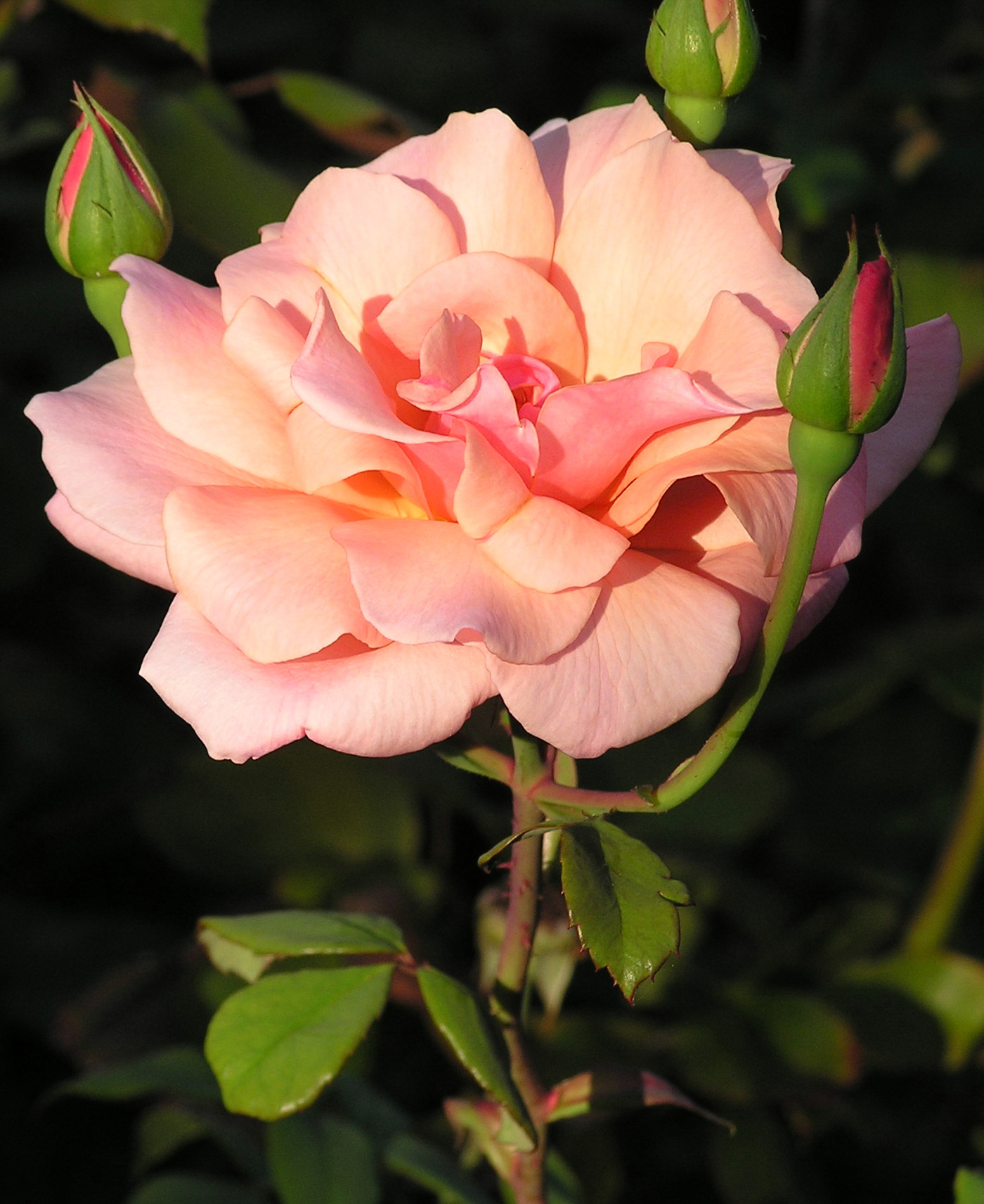 Alister Clark hybrid tea rose Sunlit 1937